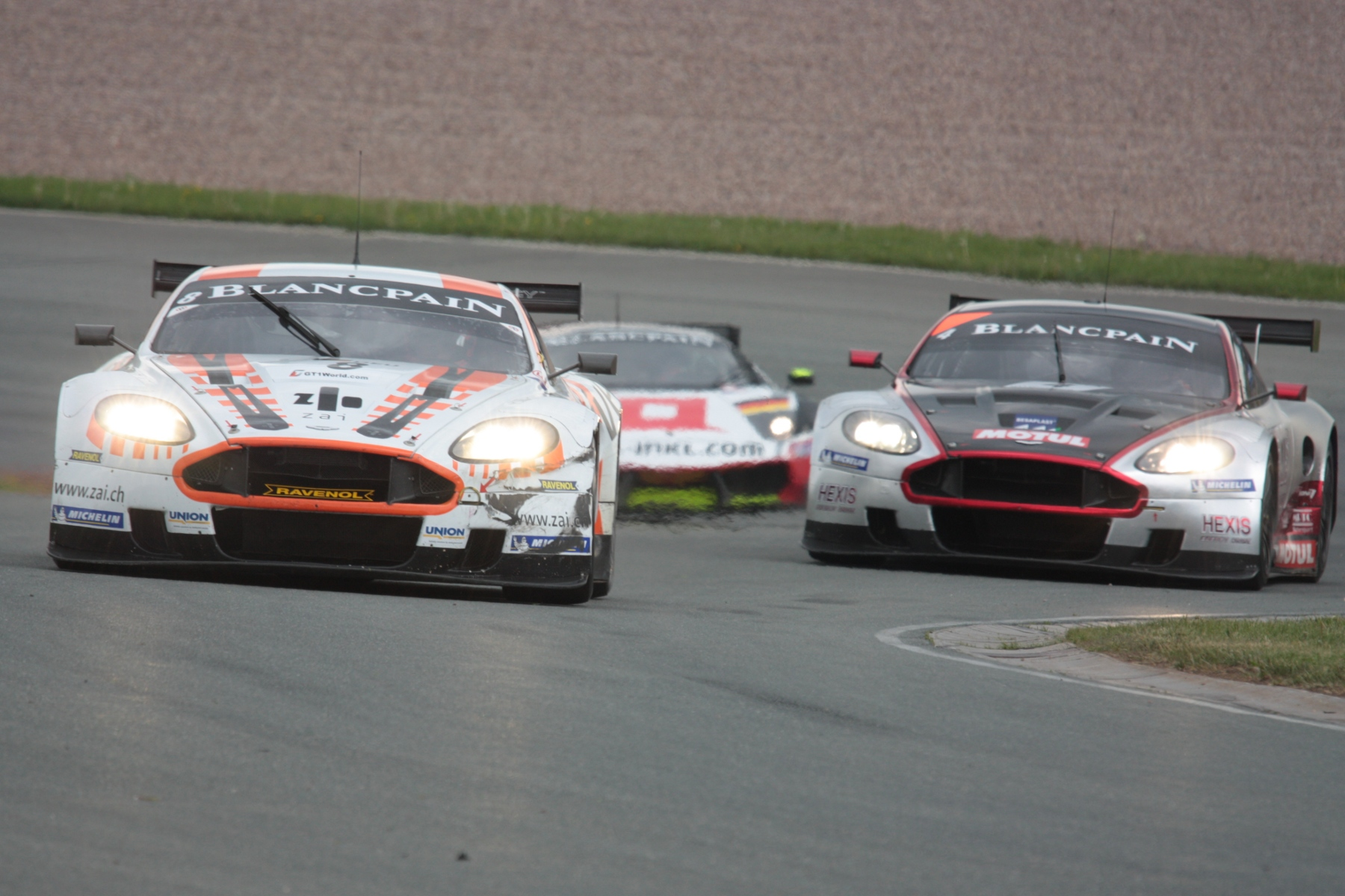 Stefan Mücke and Christian Hohenadel at Sachsenring championship race 2011.